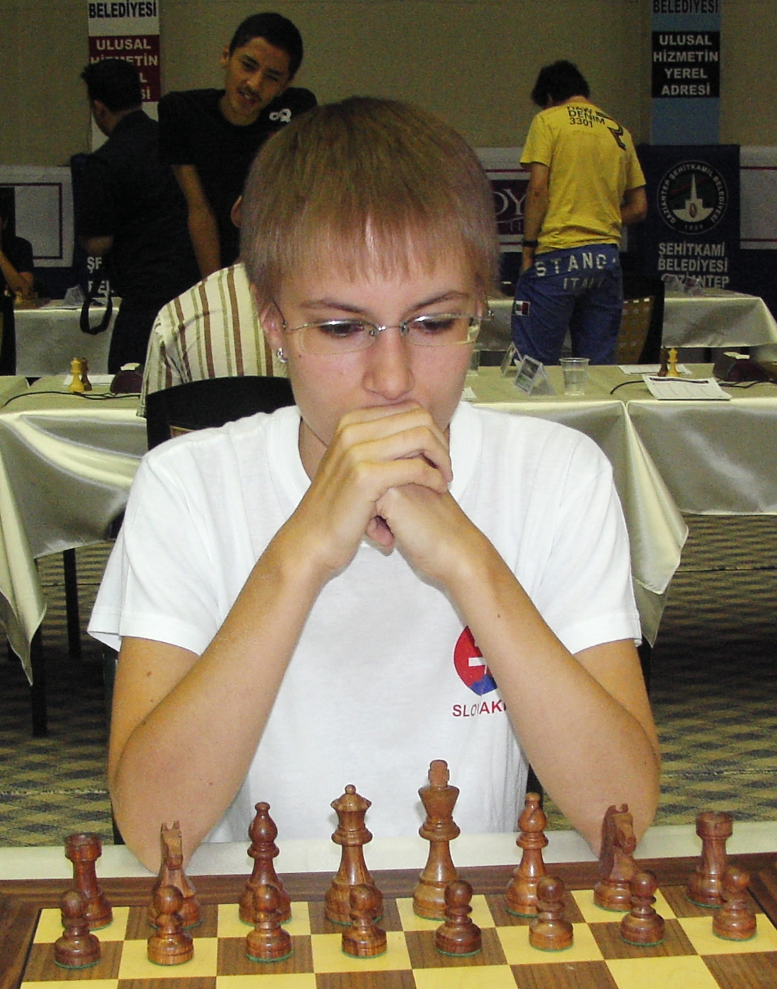 Zuzana Borosova at the 2008 World Junior Chess Championship in Gaziantep, Turkey.